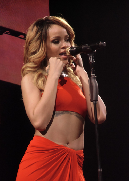 Rihanna performing at her Diamonds World Tour in Cologne on June 26, 2013.